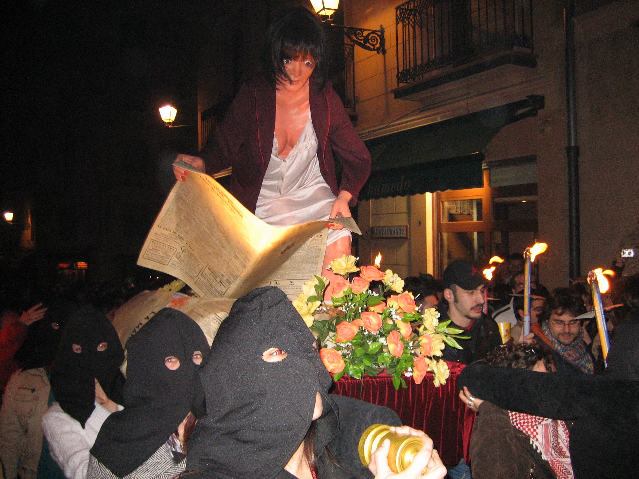 La Moncha